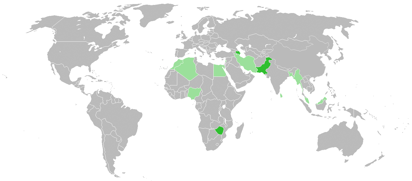 Operators of the JF-17 Thunder. Green: Currently in service, in production or with confirmed orders Light green: Potential customers. Own work, derivative of 400px